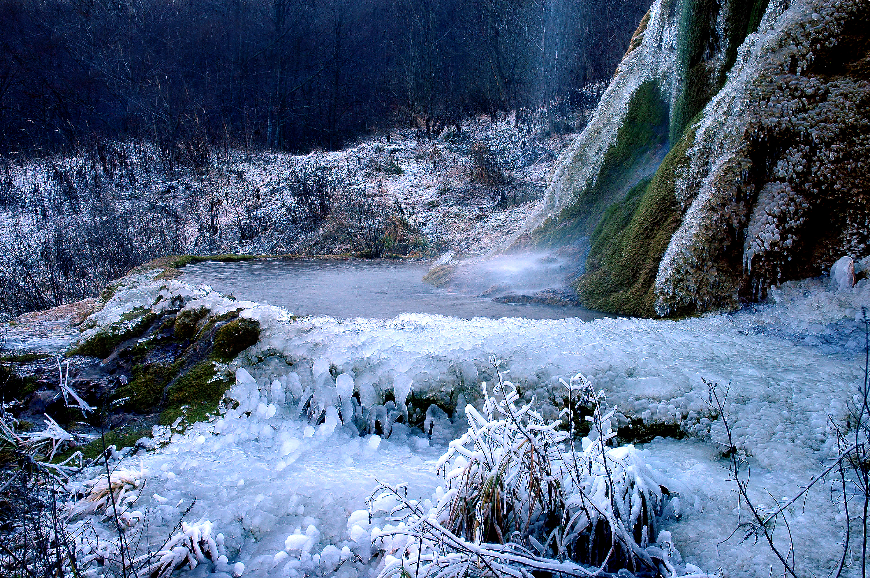 Prskalo waterfall is located in the Nekudovo river valey in Kucaj mountains, Eastern Serbia. Prskalo is probably the most unusual waterfall in Serbia, with a narrow streak of water falling off a pointed towering formation built by the sediments accumulated by the water flow.